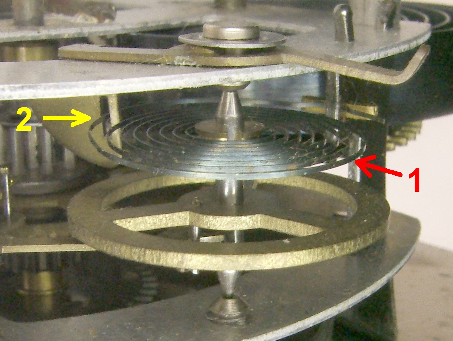 Balance wheel in a cheap 1950s mechanical alarm clock, the Apollo, by Lux Mfg. Co. 2.4 cm diameter. Arrows point to the hairspring (1) and the regulator (2). It has a rate of 4 beats (ticks) or two cycles per second. The clock belongs to me and is still working.